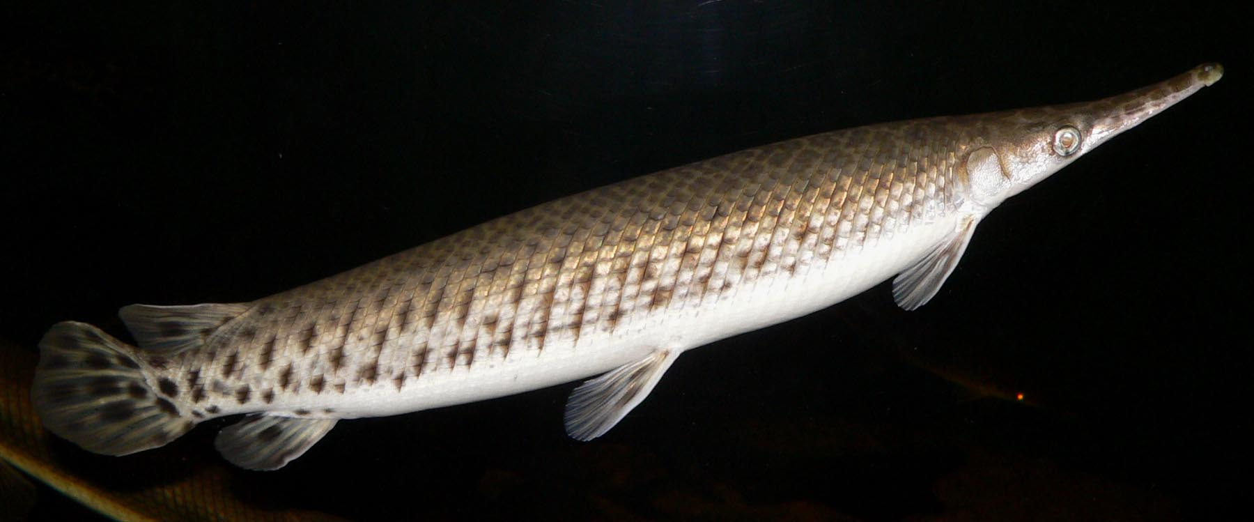 Photo of Lepisosteus oculatus (spotted gar) at the Steinhart Aquarium in San Francisco